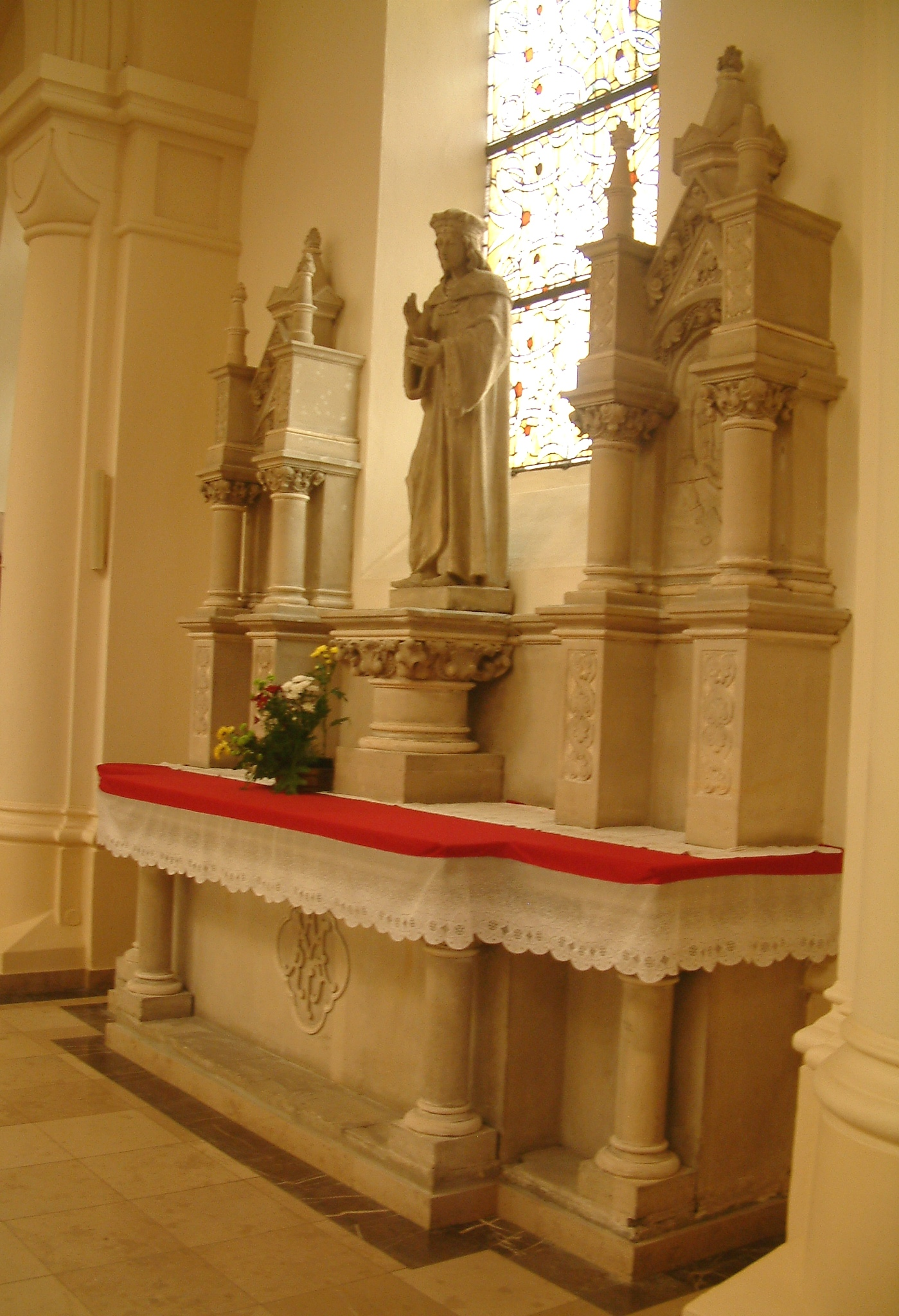 Church of Mother of Sorrow in Poznań, Altar of St. Casimir